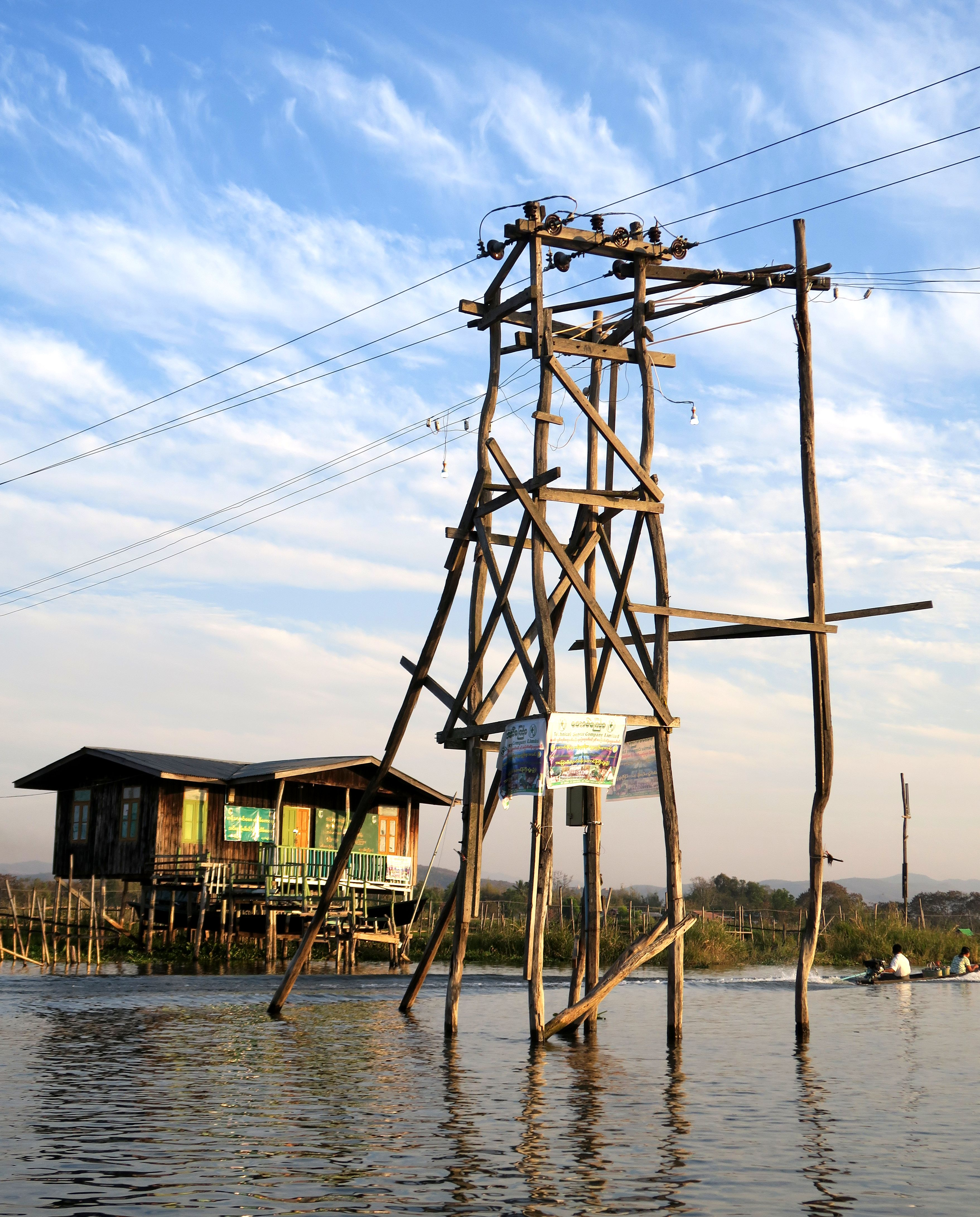 Wooden lattice tower of a low-voltage overhead power line in Inle Lake (Myanmar).